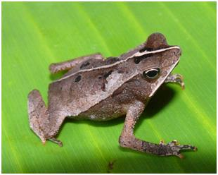 Unidentified Bufonidae at Tapiche Ohara's Reserve